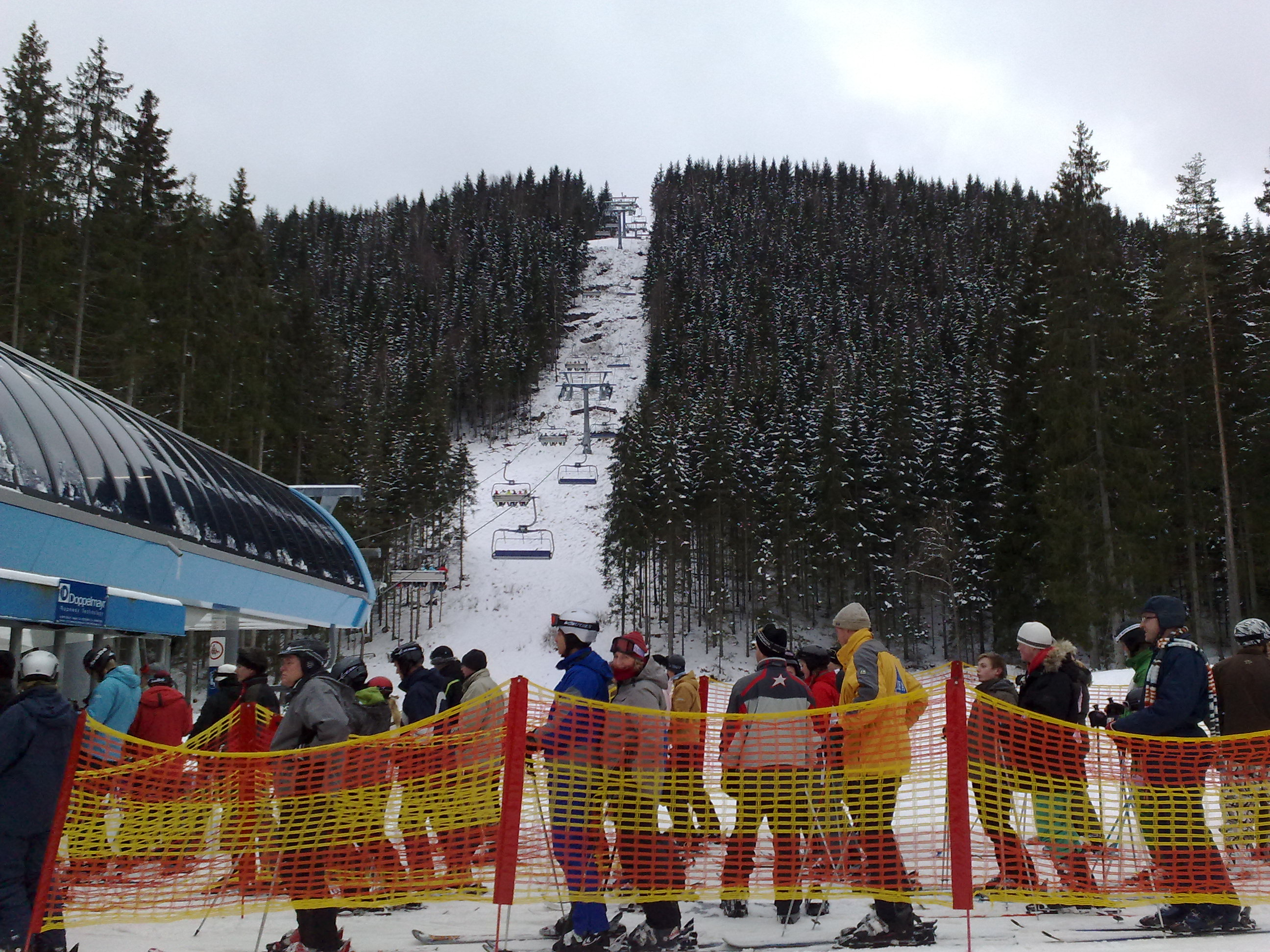 Picture from six seated ski lift, at Isaberg ski resort, Sweden